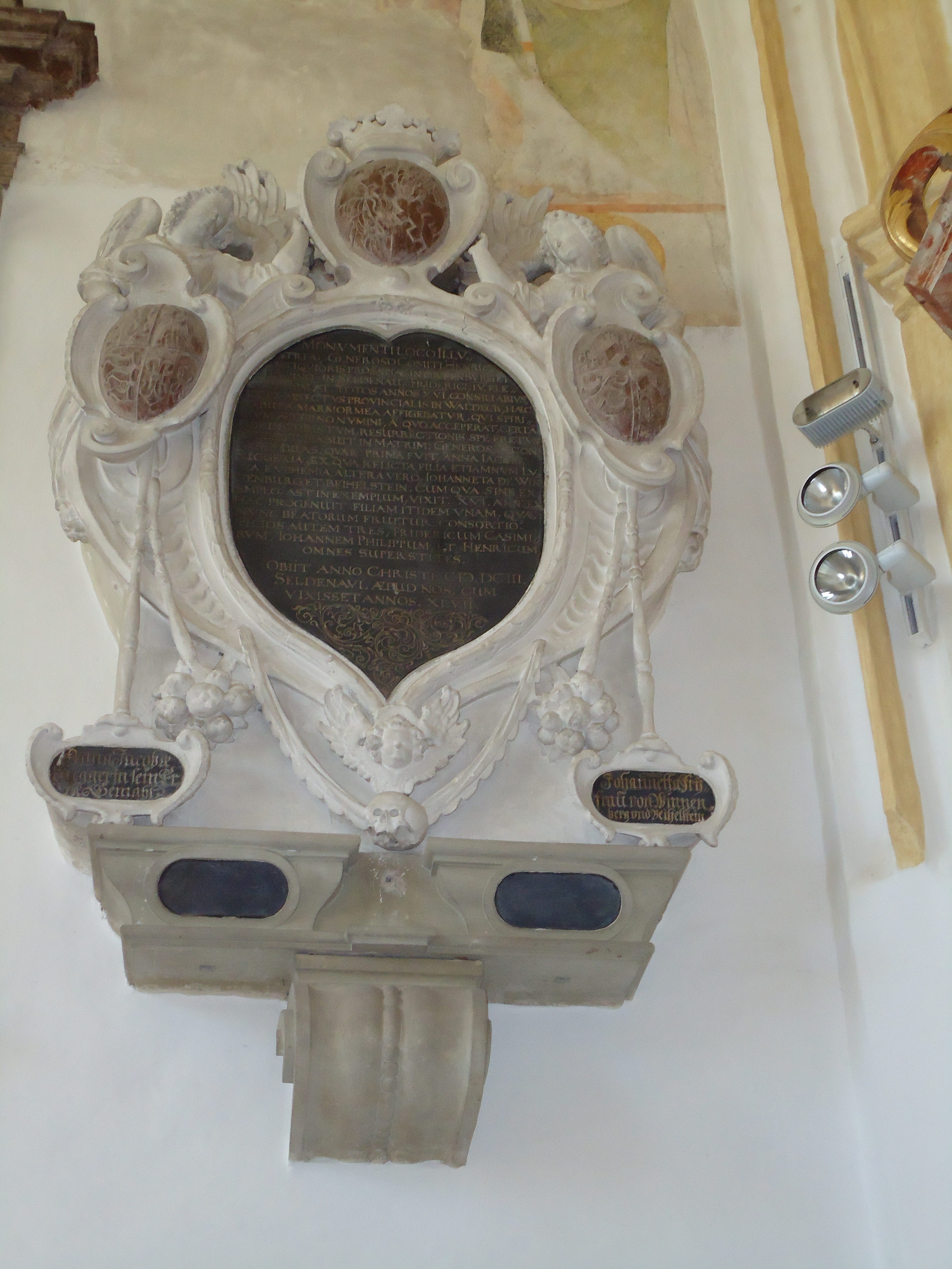 Epitaph for Count Henry VII. von Ortenburg